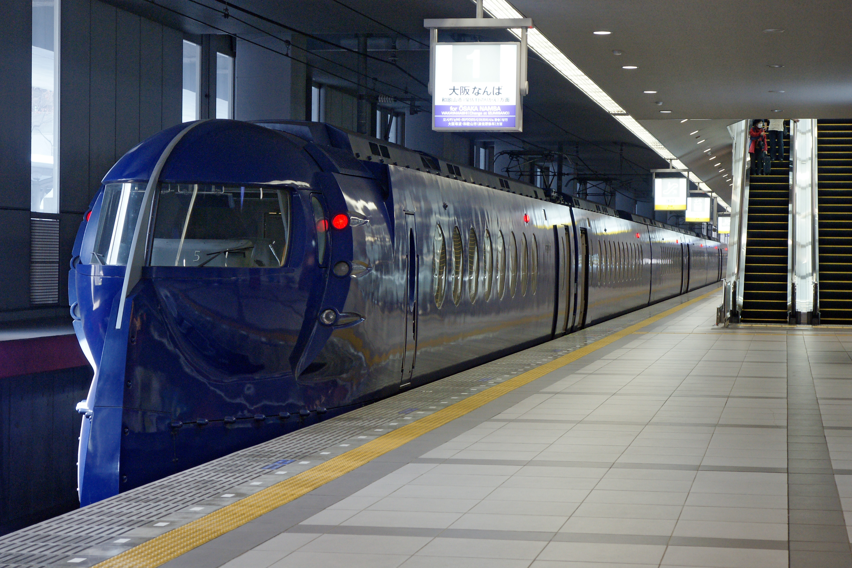 Nankai Electric Railway type 50000 for Rapi:t at Kansai Airport Station in Tajiri, Osaka prefecture, Japan